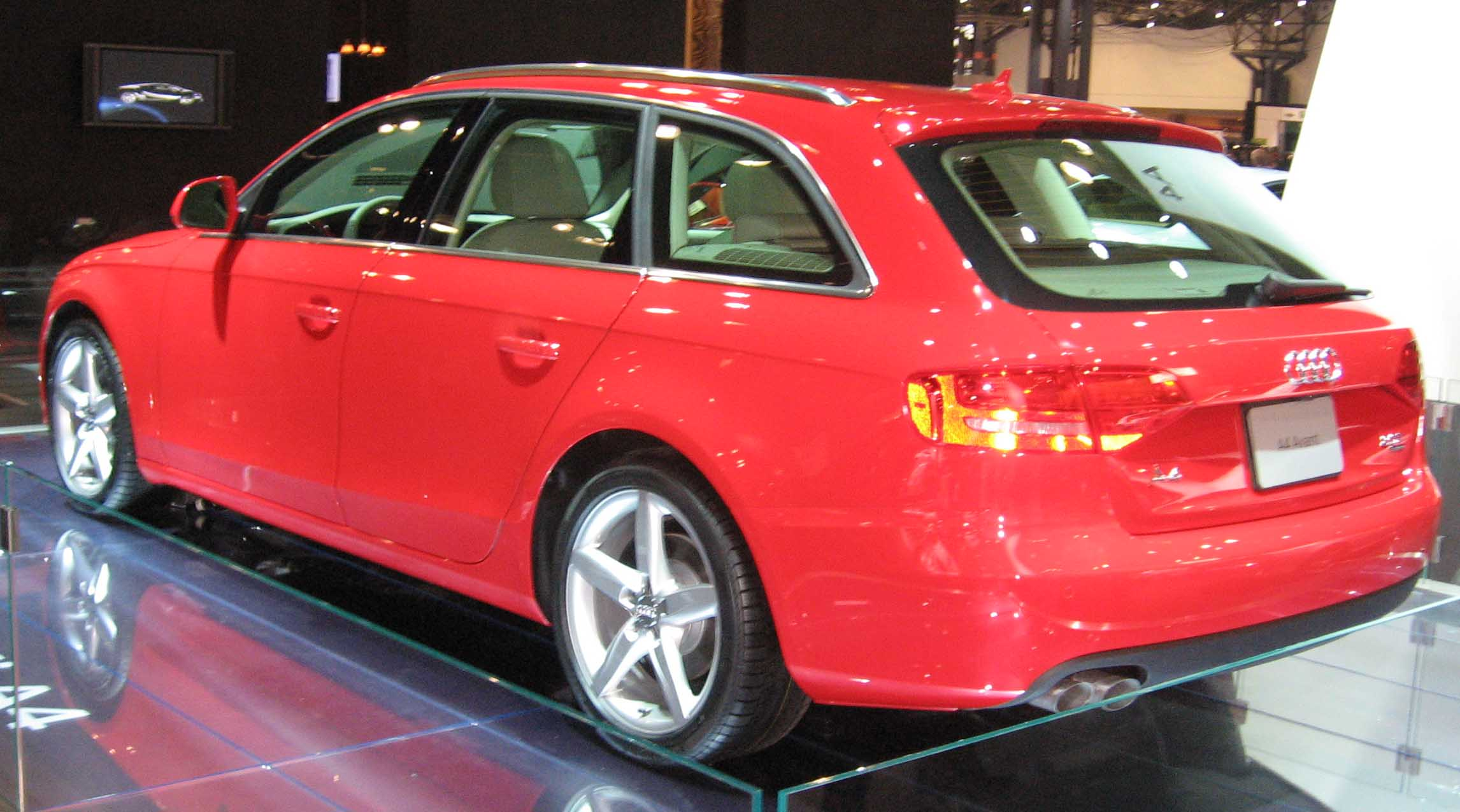 2009 Audi A4 photographed at the 2008 New York Auto Show.